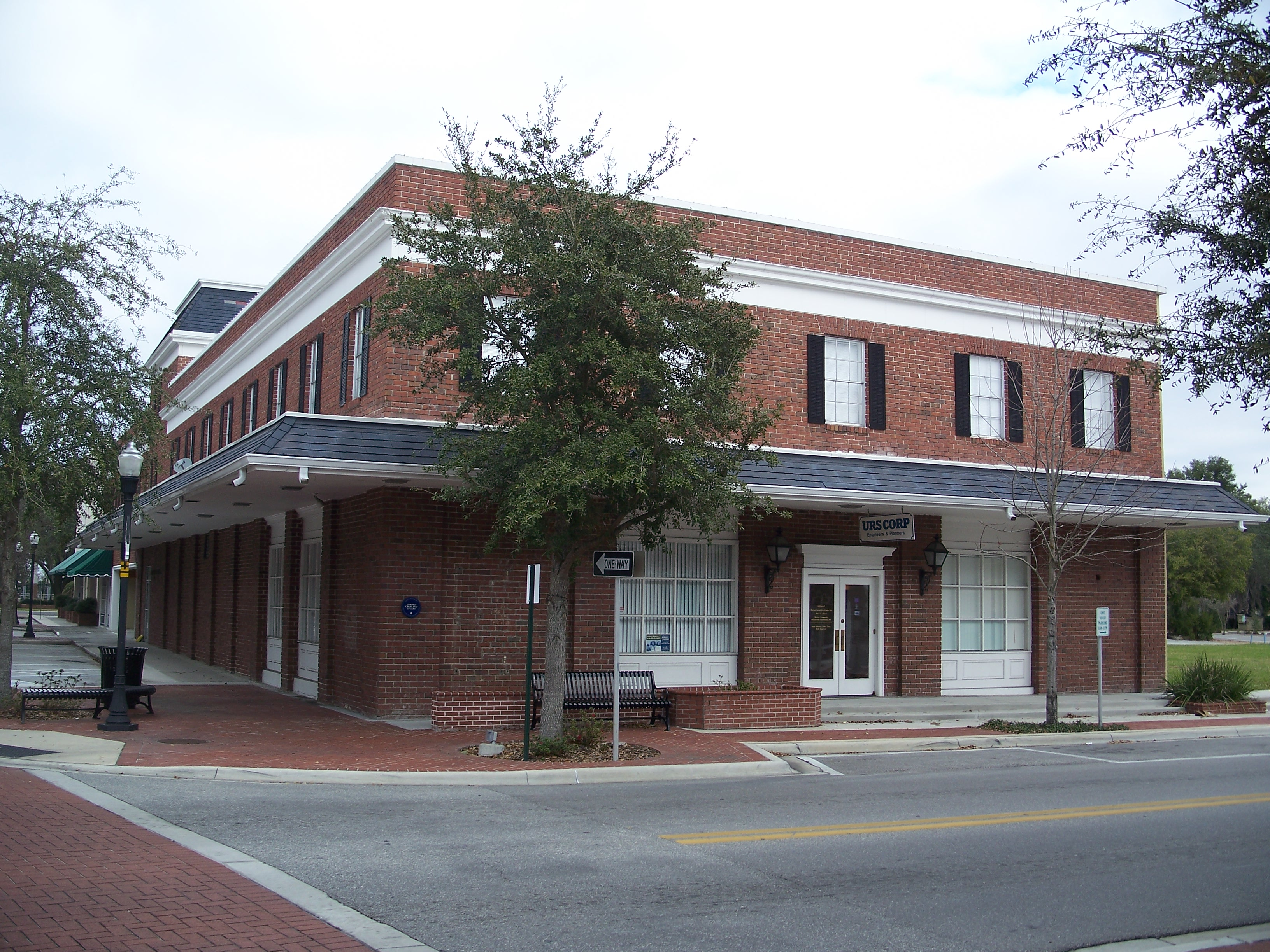 Bartow, Florida: Bartow Downtown Commercial District: Stuart building.